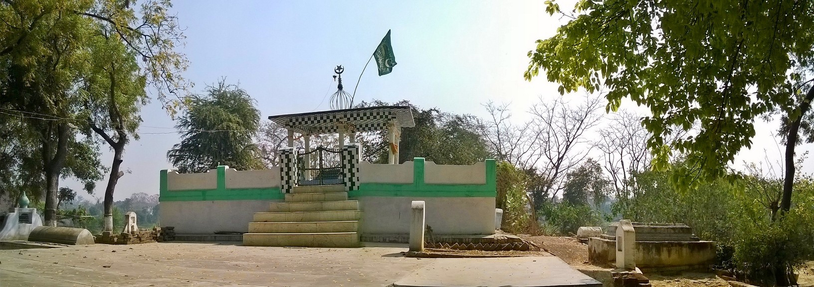 Dargah of Syed Buddan Shah Bahraichi